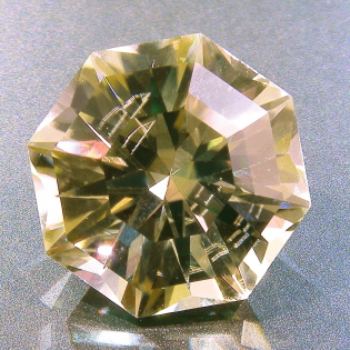 Faceted spodumene, cut in the USA on precision equipment. Octagonal barion-style cutting, approximately 13 carats. Reflecting needle-like internal inclusion.